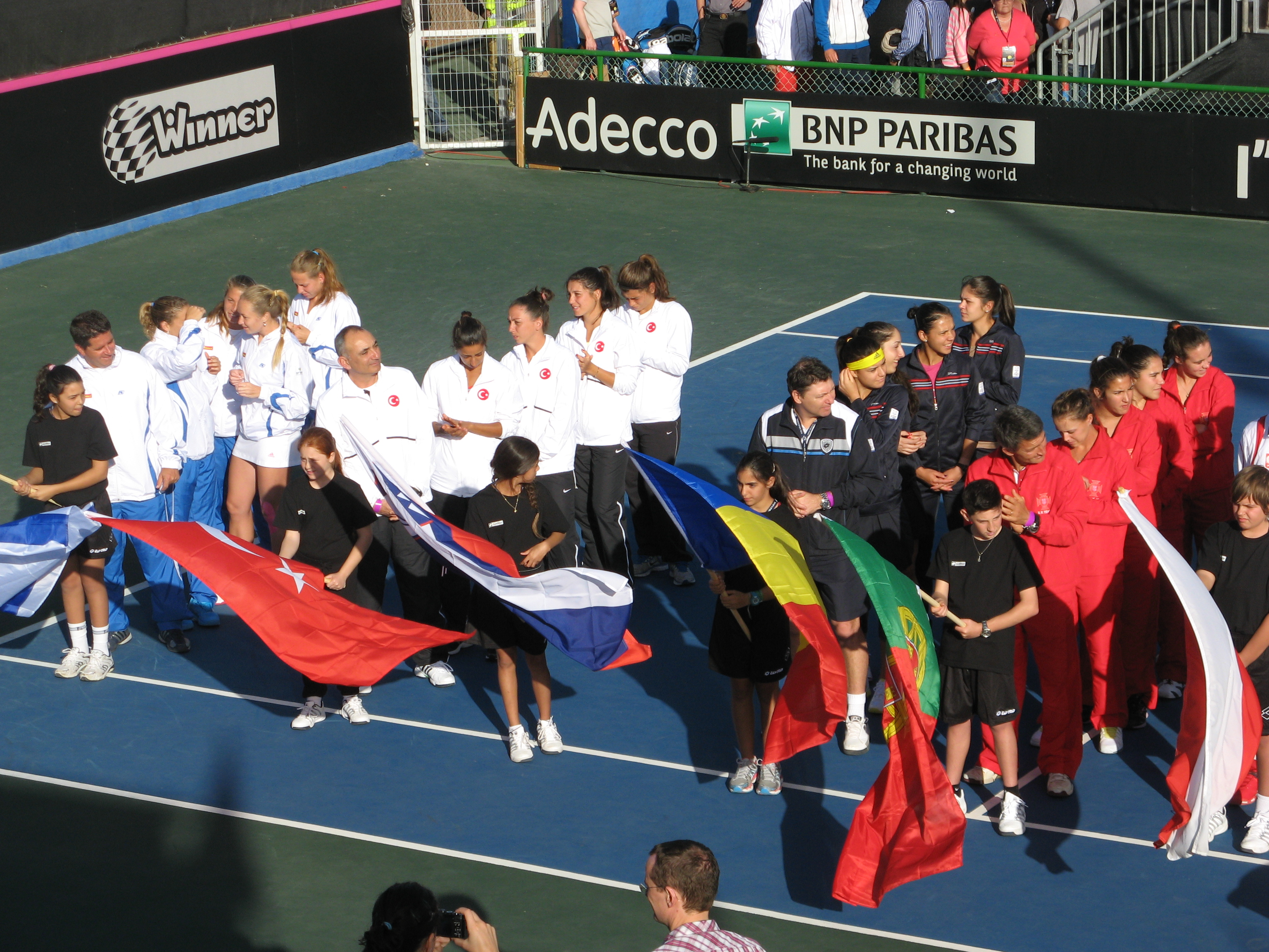 The Opening ceremony of Fed Cup Group I 2013 Europe/ Africa in Eilat, Israel.